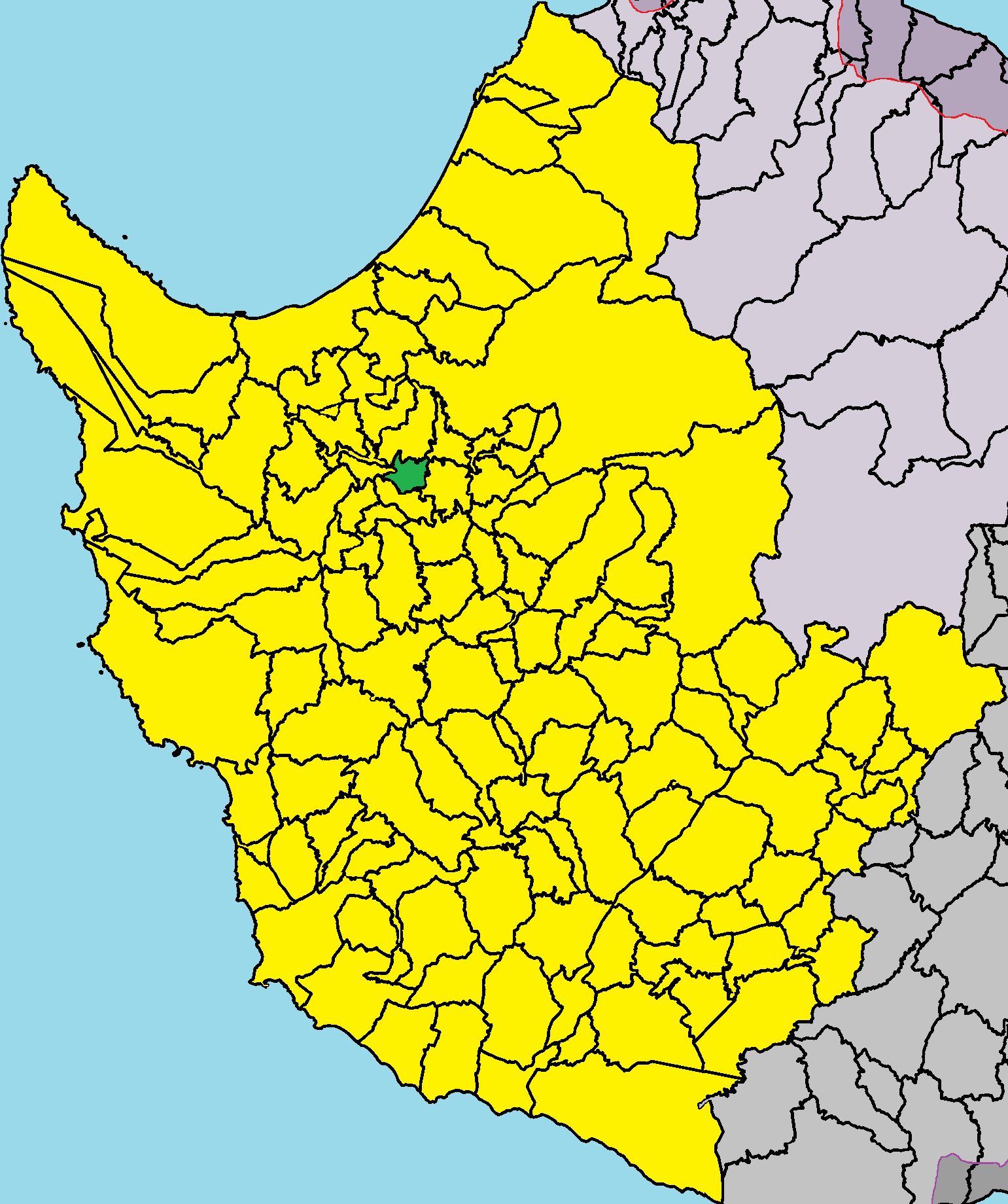 Trimithousa in Paphos District.